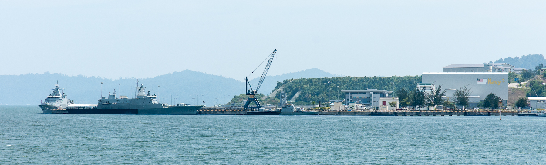 Sabah: Sepangar Bay, Royal Malaysian Navy Harbour